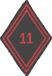 Shoulder patch of the 11th Engineer Regiment (France).